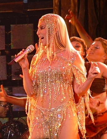 Singer and actress Cher performing in a concert in France; 2004.